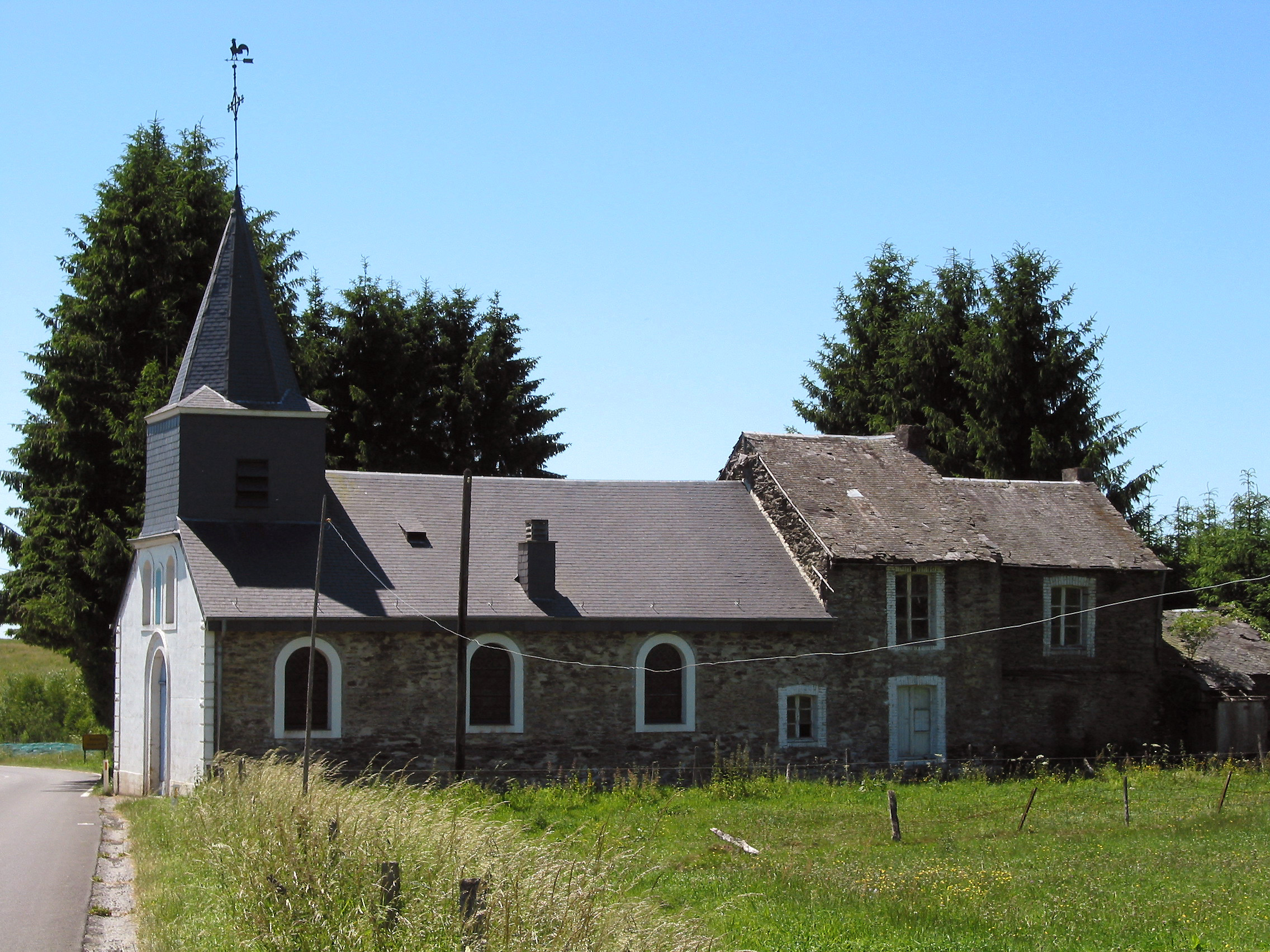 Hérisson (Vresse-sur-Semois) - Belgium, the Notre-Dame chapel (1872-1873). Walon: Hérisson (Vrèsse) - Bèljike, li chapèle Notrè-Dame (1872-1873).